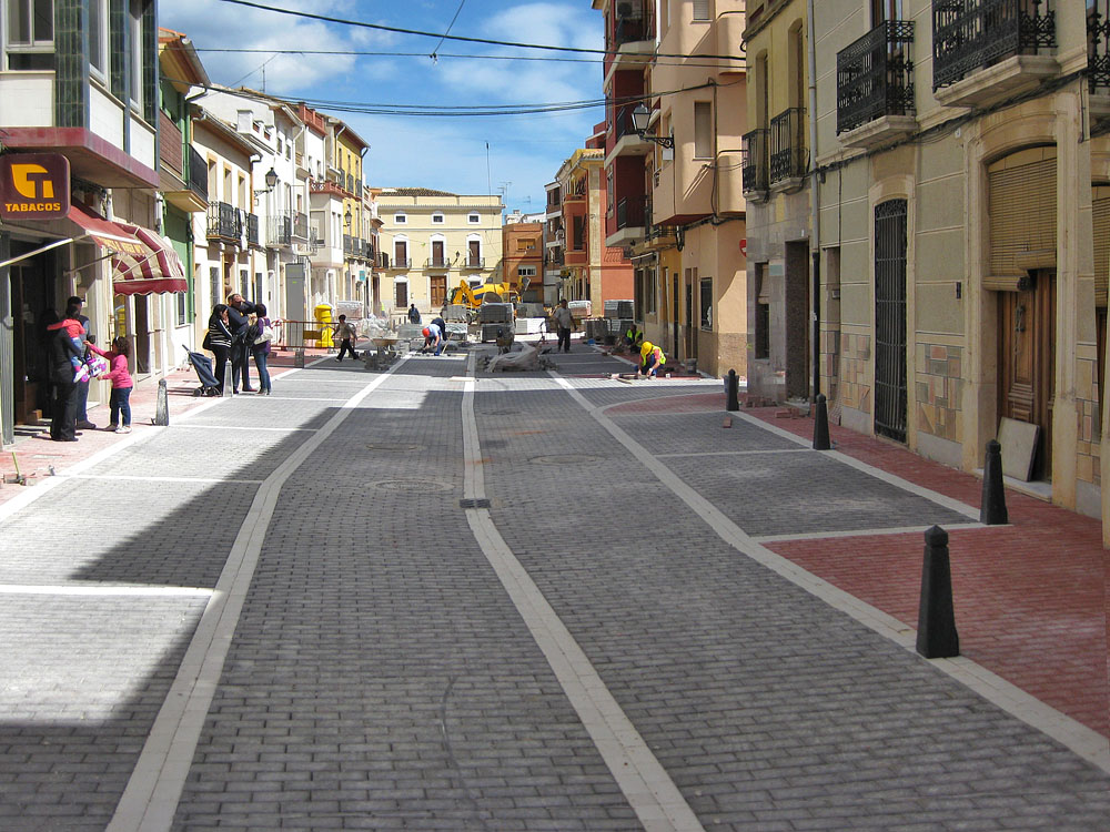 Main street in El Verger, Valencian Country, Spain. Works underway to semi-pedestrianise the town centre. Carrer major del Verger, Marina Alta, País Valencià. Obres en progrés per reconvertir la vila vella en zona de vianants parcial.